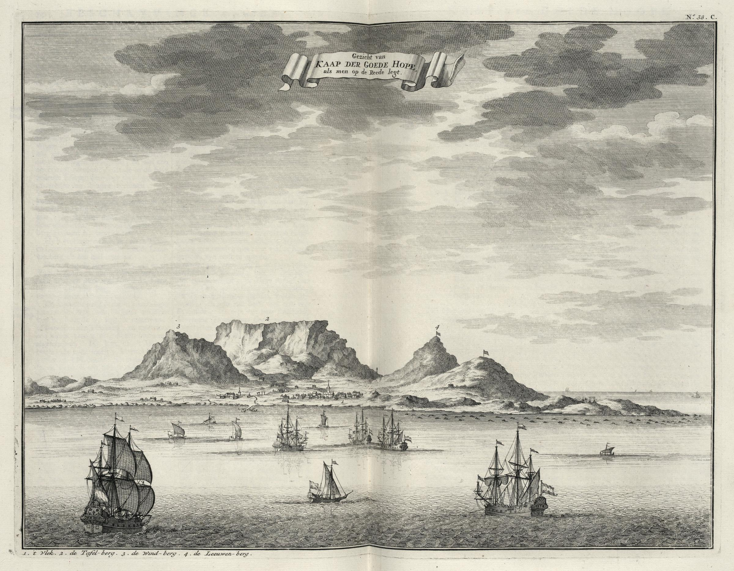 View of Cape Town. Gezicht van Kaap der Goede Hope als men op de Reede legt. Key: 1. 't Vlek. / 2. de Tafel-berg. / 3. de Wind-berg. / 4. de Leeuwen-berg. Top left: No: 38c. The plate is taken from: 'Oud en Nieuw Oost-Indiën' van François Valentyn. A number of East Indiamen lie at anchor on the roadstead.